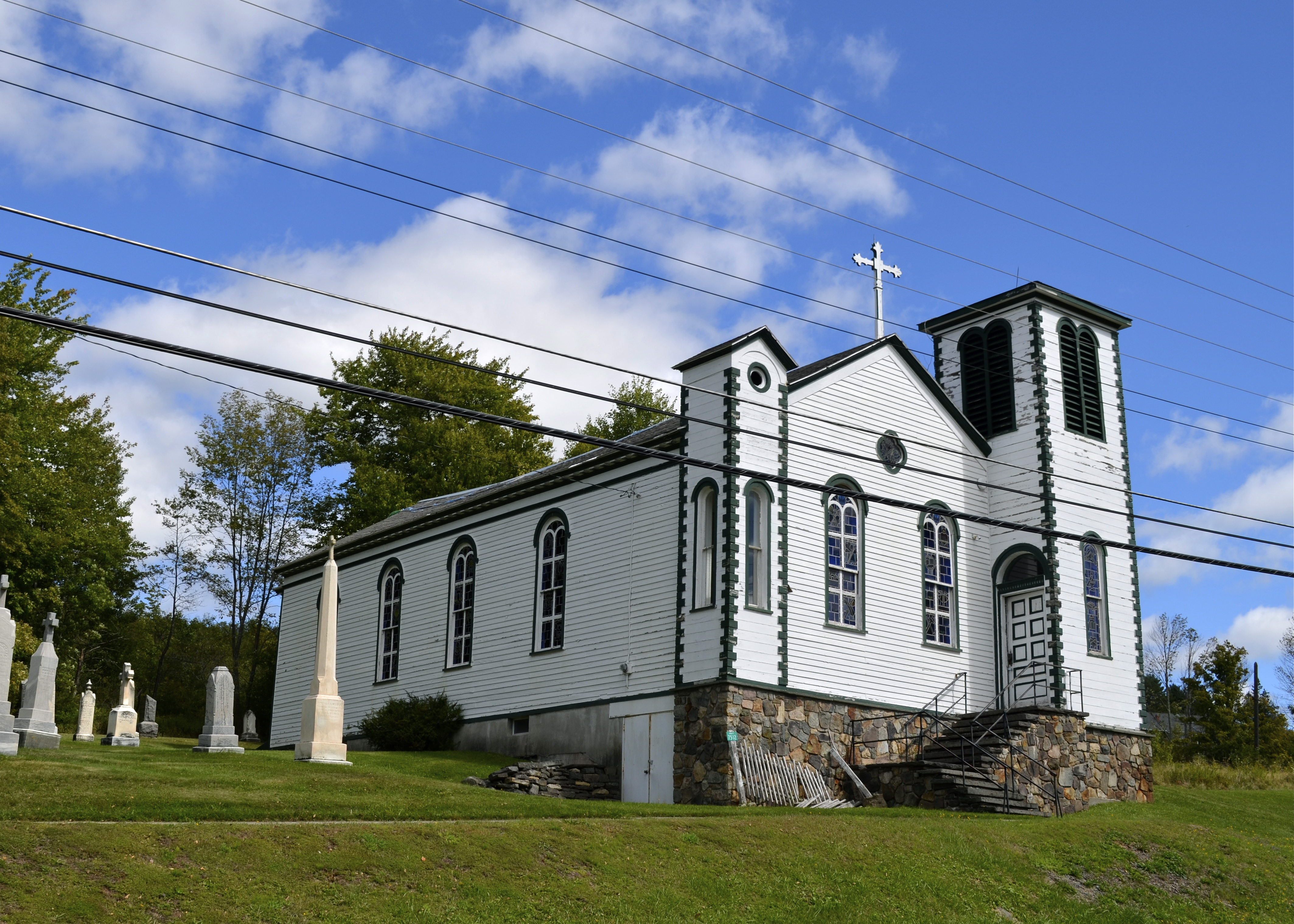 Mary of the Mountain Church as seen from HWY 23A. Hunter, NY